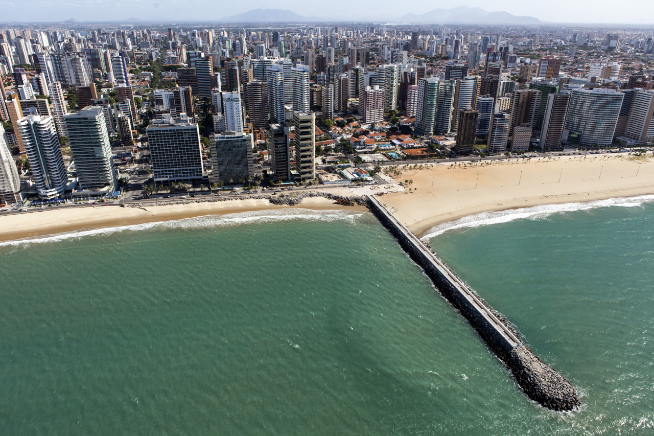 Seashore of Fortaleza